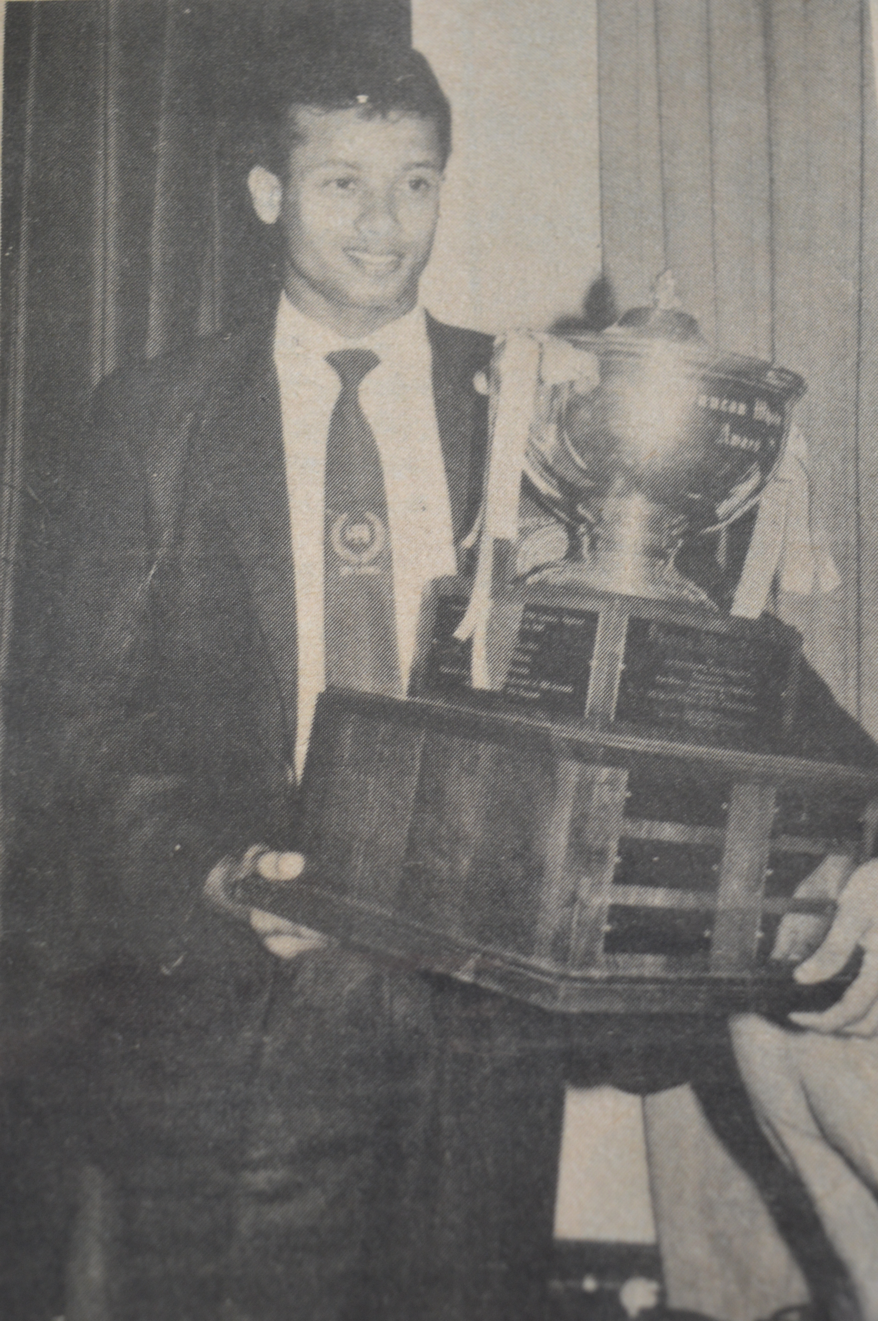 Sri Lankan athlete, Sriyantha Dissanayake, receiving the 1st Duncan White Award